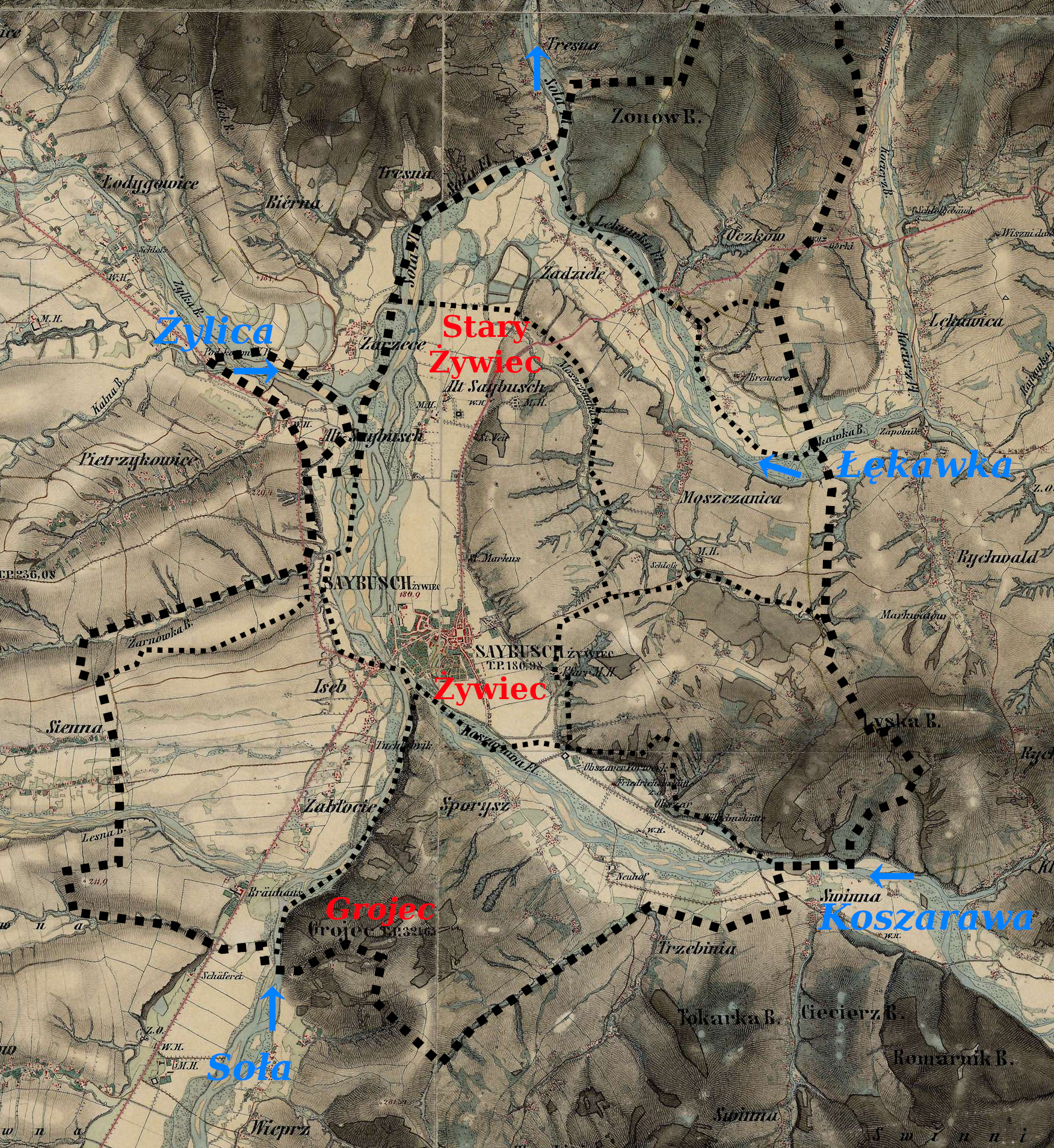 Stary Żywiec (Alt-Saybusch), Żywiec (Saybusch) and Grojec Hill on an austrian map from around 1855